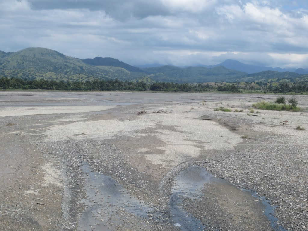 Laclo River crossing at Manatuto